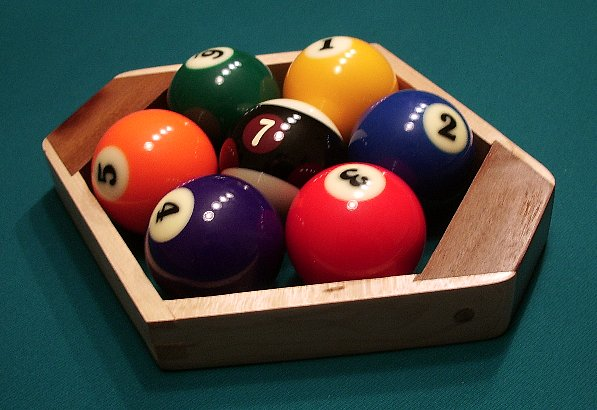 Racking up a game of seven-ball using a special hexagonal seven-ball rack, and incidentally also using a special 7 ball that borrows the black color and stripe, respectively, of the "money balls" in the games of eight-ball and nine-ball, to make it stand out more. The 1 ball is on the foot spot.